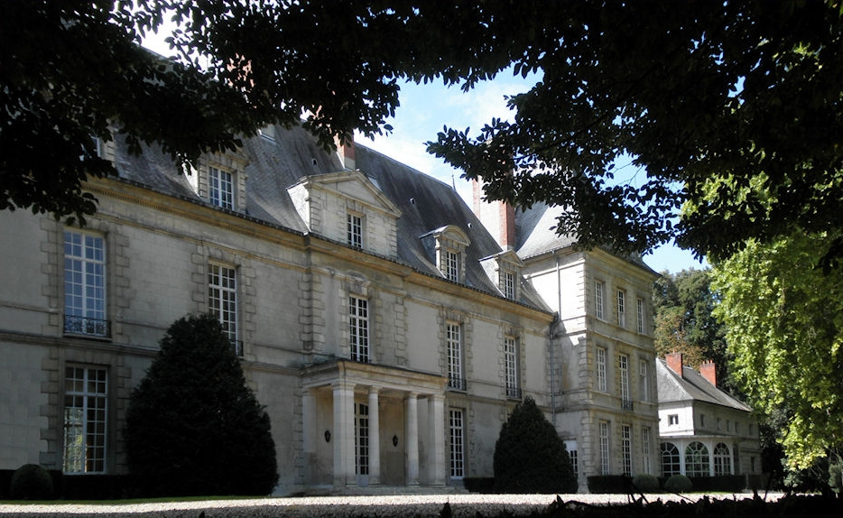 Castle of Mortefontaine, 60128 Mortefontaine, France